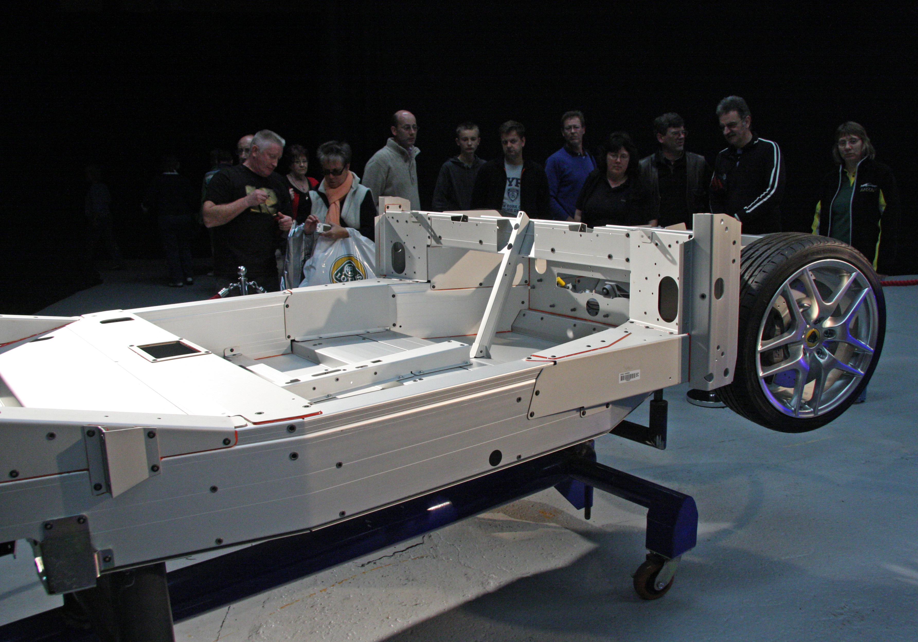 Bonding material is red for easy continuity checks. Used to be green. Lotus 60th Celebration